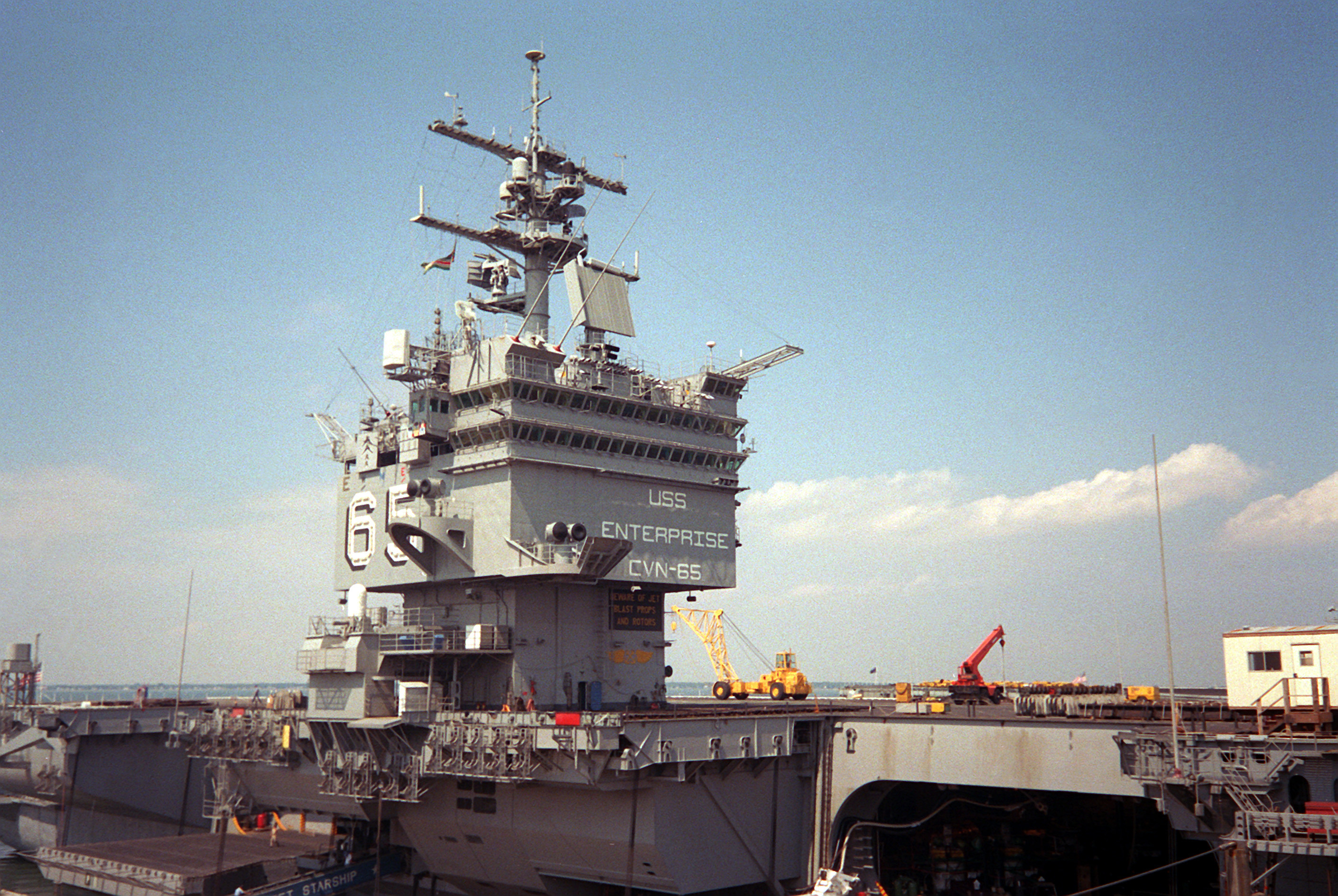 A starboard view of the island of the nuclear-powered aircraft carrier USS ENTERPRISE (CVN-65) with the island of the nuclear-powered aircraft carrier USS THEODORE ROOSEVELT (CVN-71) in the background. The ENTERPRISE is preparing to enter a 44-month Service Life Extension Program (SLEP) at Newport News Shipbuilding and Dry Dock Company.